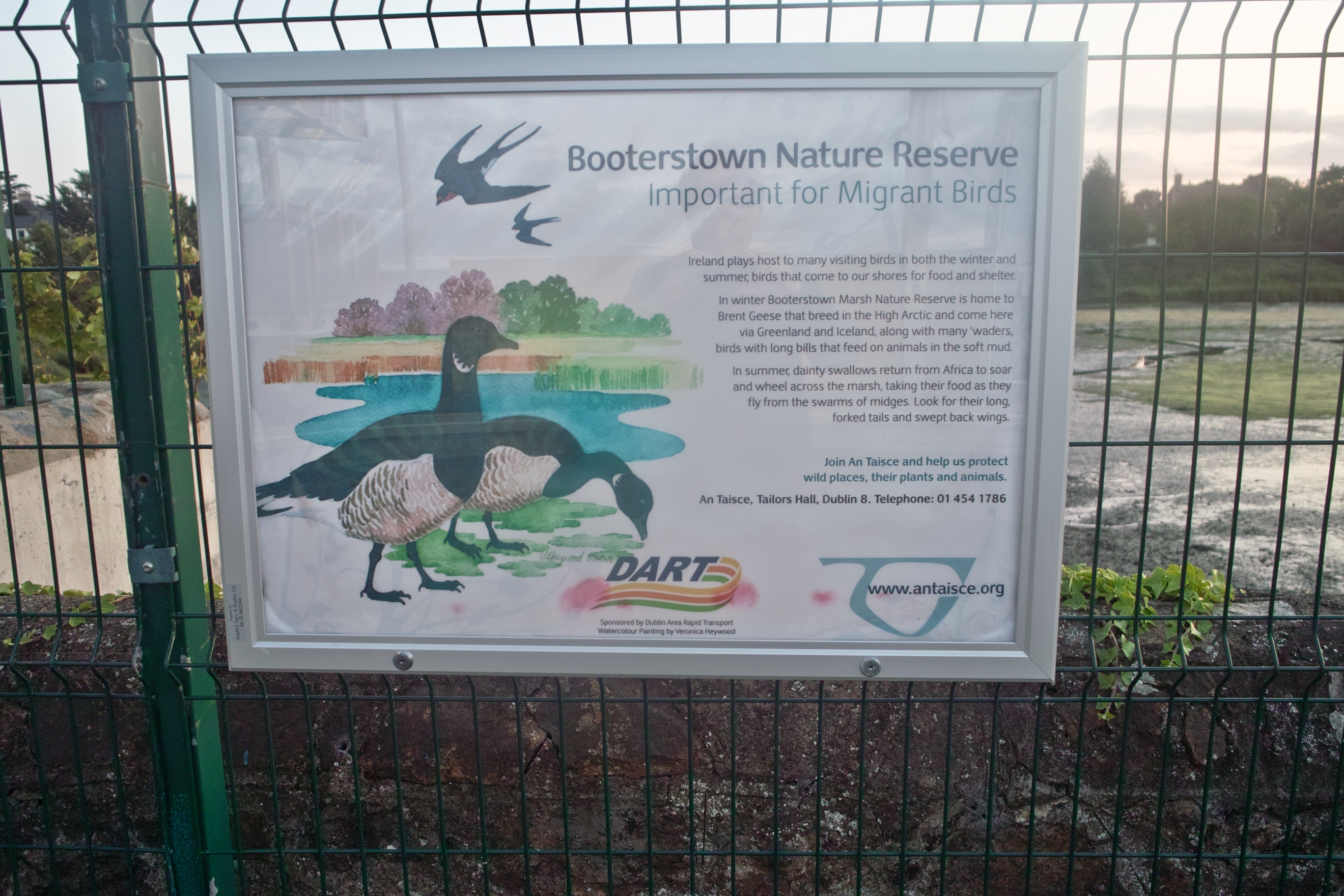 The sanctuary, in a four-hectare water marsh, may be viewed from the road, where information boards have been erected. Opposite the marsh is the former home of the famous Irish tenor, Count John McCormack, with its distinctive conical turret.